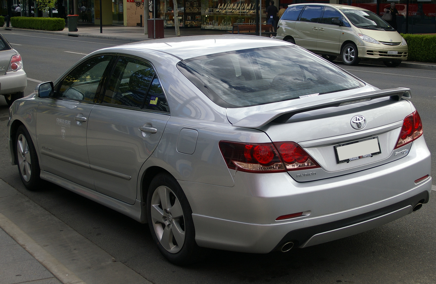 2006 Toyota Aurion Sportivo SX6.